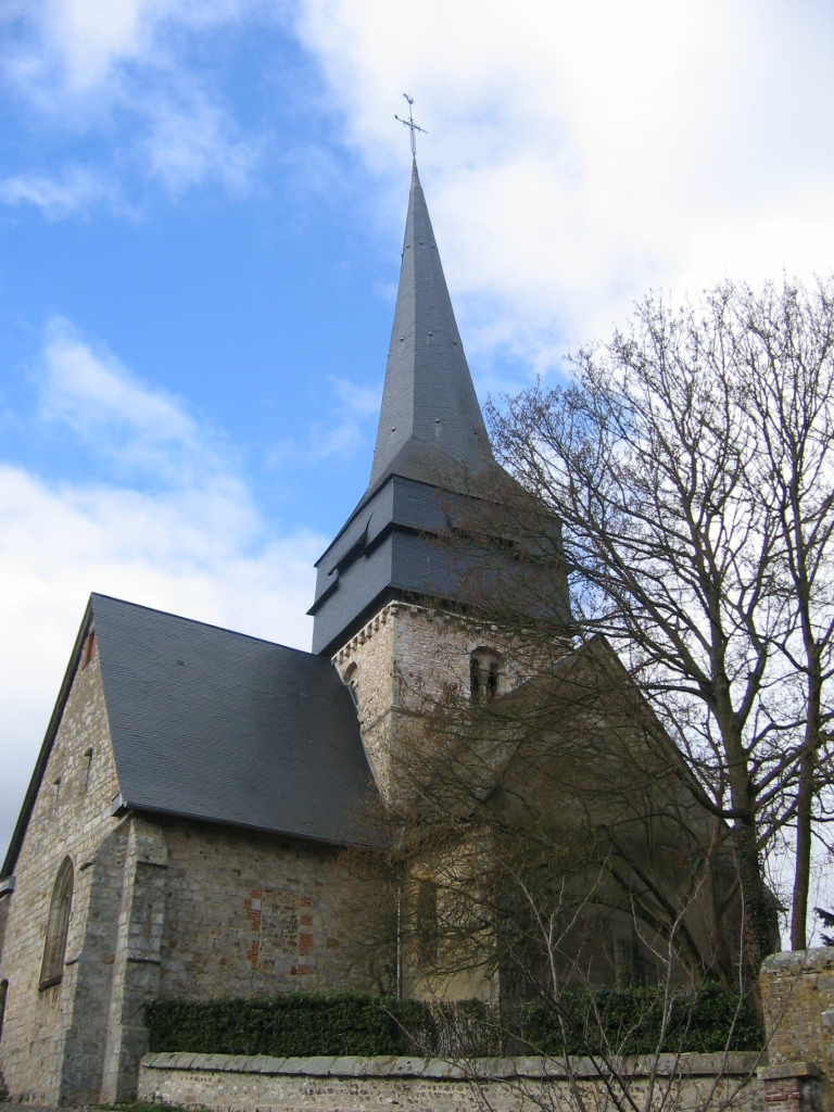 Ry, church